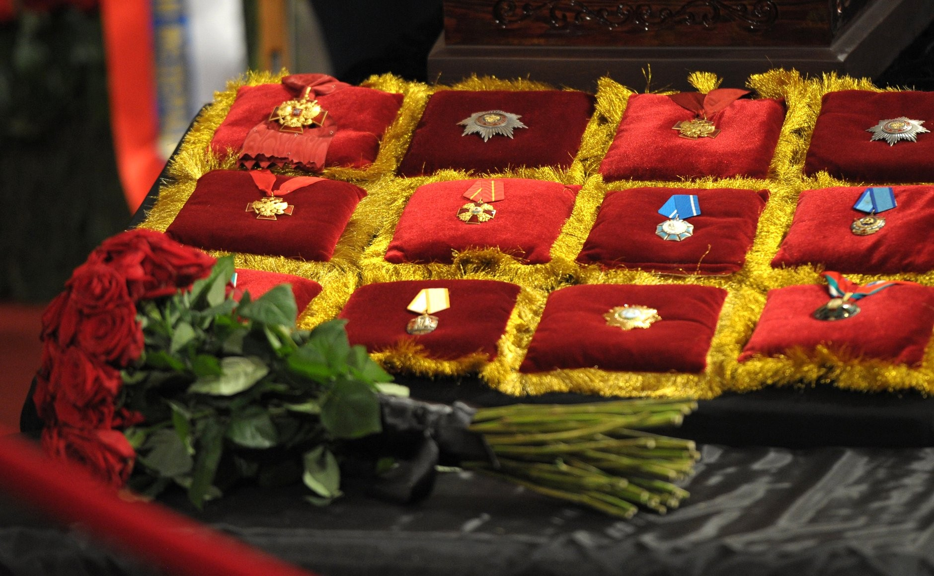 Farewell to Yevgeny Primakov